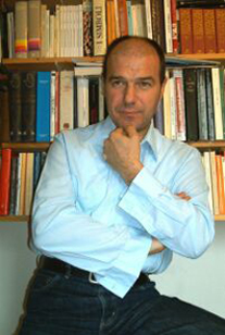 Italian writer Giordano Berti in his own library